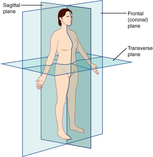 Caption: The three planes most commonly used in anatomical and medical imaging are the sagittal, frontal (or coronal), and transverse plane. URL